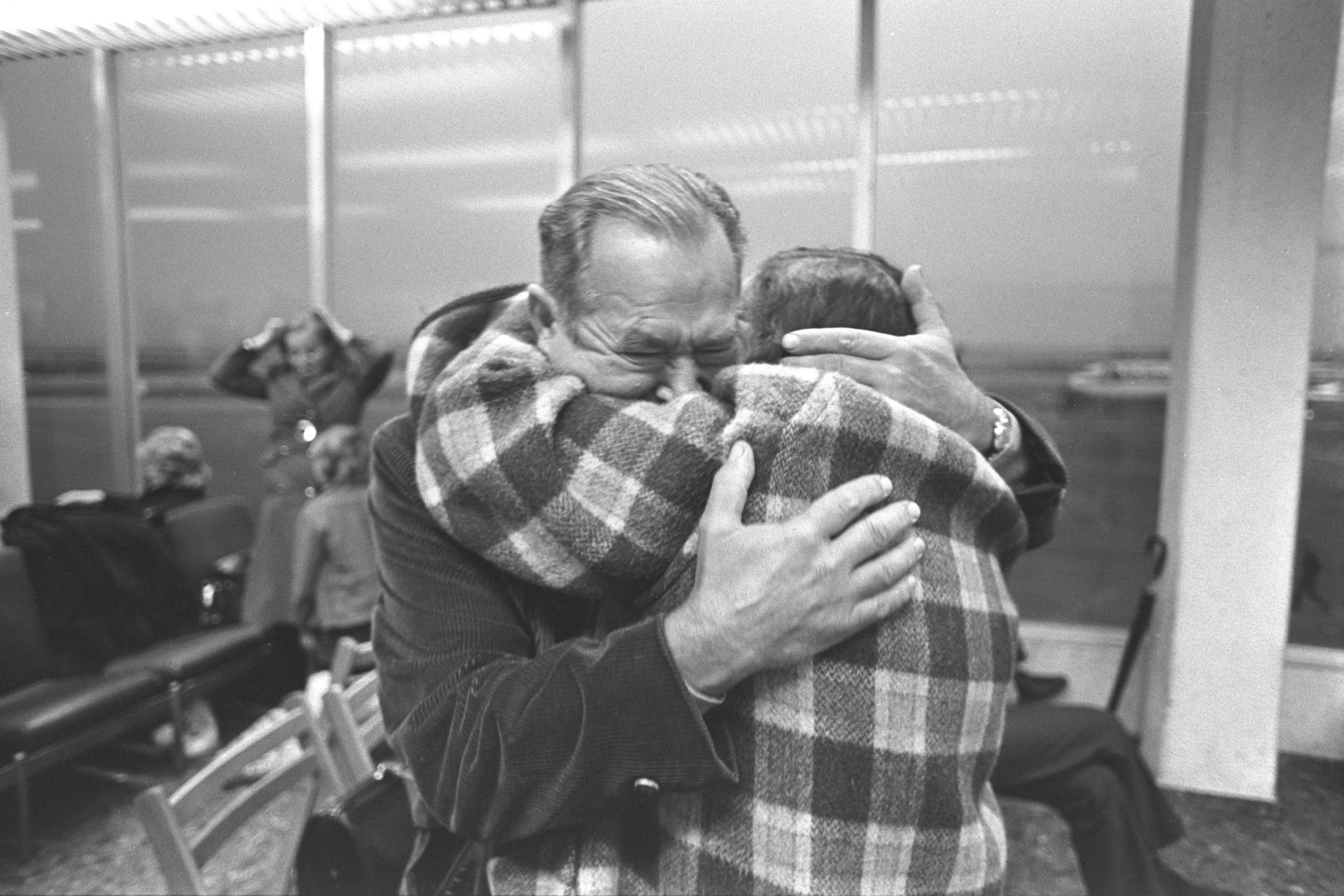 A tearful reunion after 20 years between a brother and sister, who just arrived from Russia, at Lod Airport. איחוד מרגש לאחר 20 שנה של אח ואחות שהגיעה מברית המועצות Photo: Moshe Milner (1946–) Alternative names Miylner, Moše; Milner, Mosheh; Moshé Milner; Milner, M.; Mîlner, Moše; Miylner, MošehDescriptionIsraeli photographerצלם ישראליDate of birth 1946 Location of birth Germany Authority control : Q28750411 VIAF: 100999744 ISNI: 0000 0001 0804 0507 LCCN: n82072104 GND: 115699732 BNF: 15548788n WorldCat creator QS:P170,Q28750411 , 11/15/1972